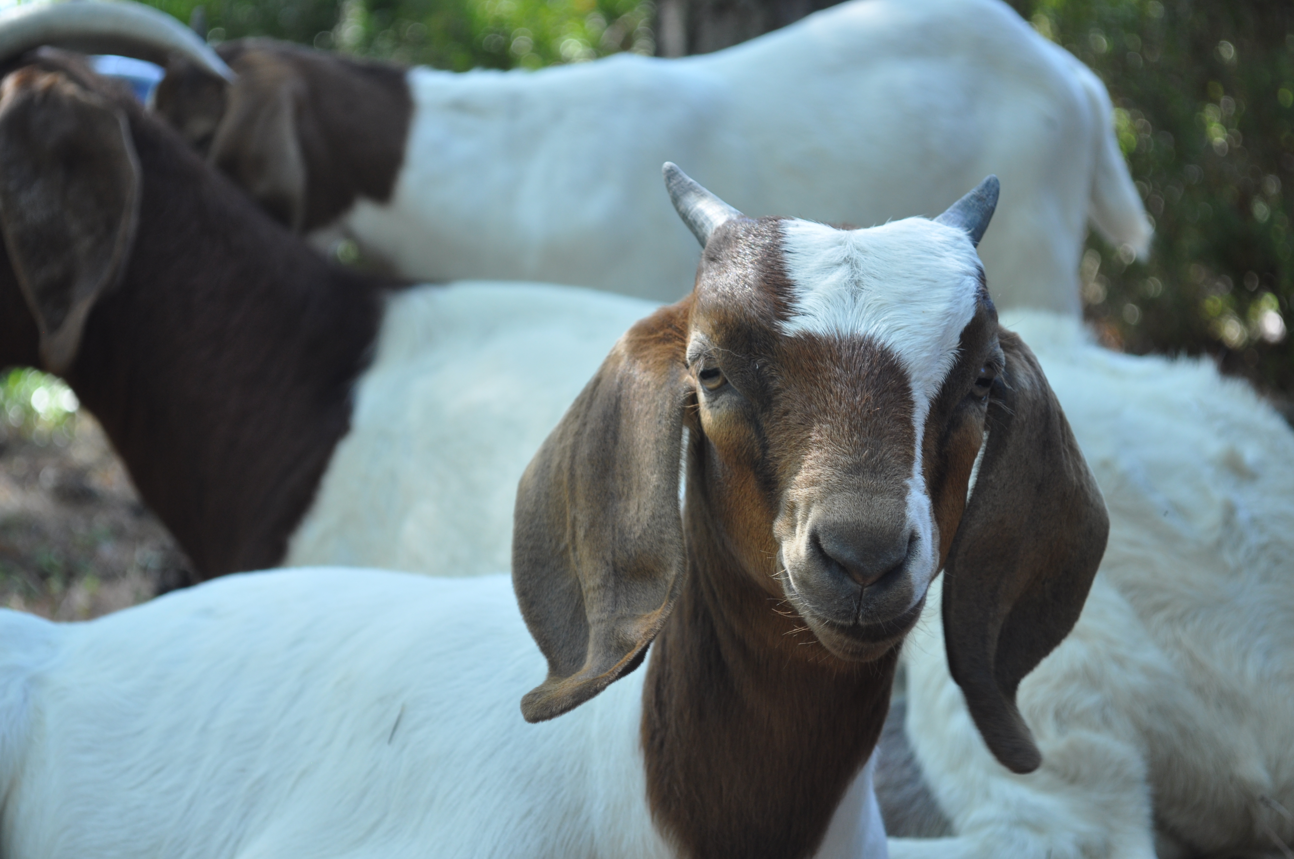 Goat Grazing, RentAGoat